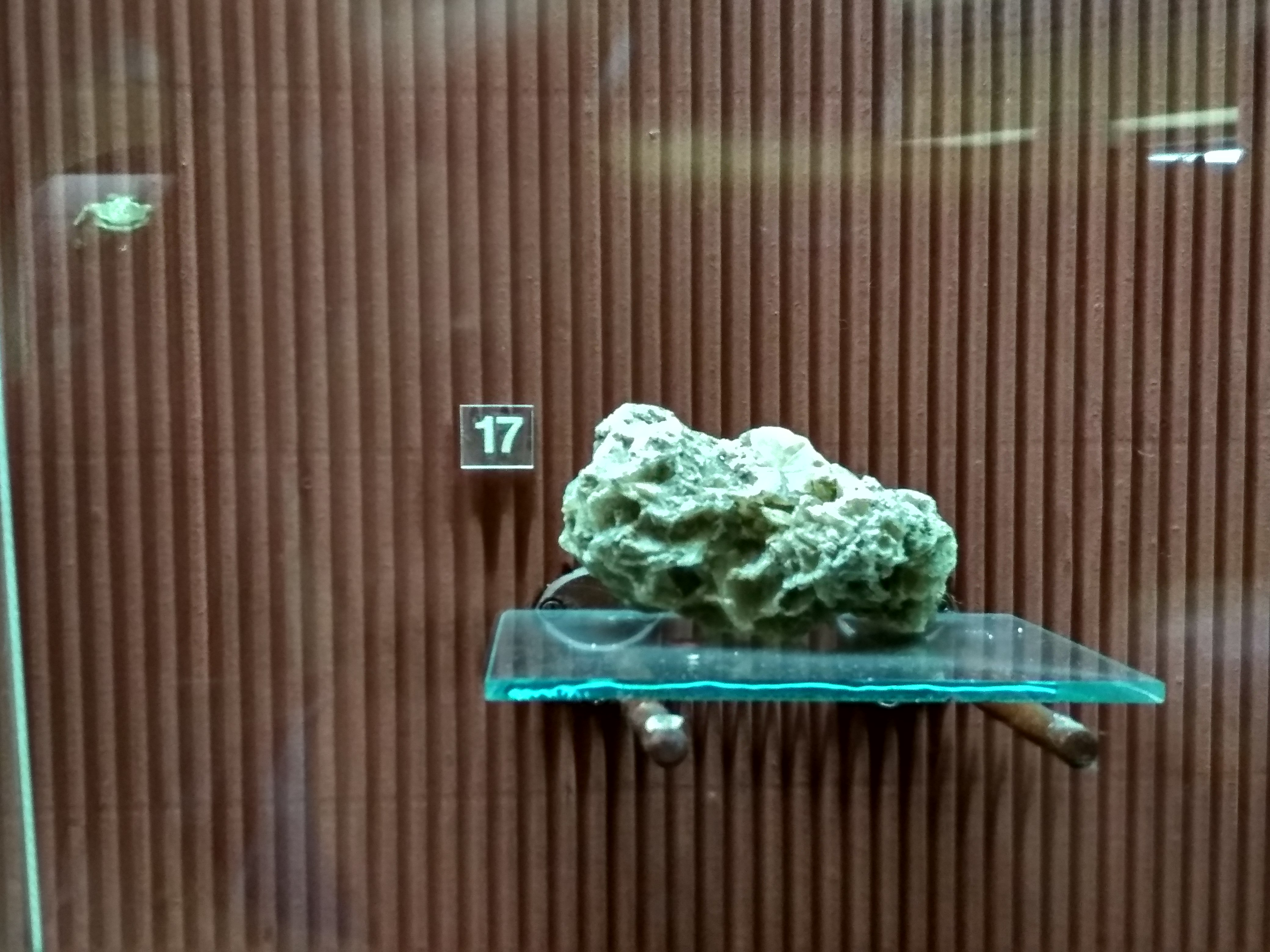 Gypsum druse (lower Pliocene – 5-3 mln. ani), found in the ravines of Ceadîr-Lunga, Găgăuzia, Moldova